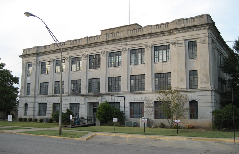 Pontotoc County Court House, Ada, Oklahoma. Taken by Brad Holt.